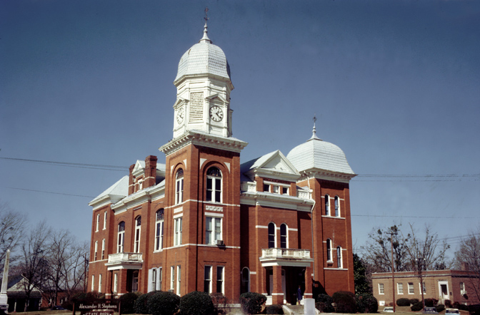 Taliaferro County Courthouse, Crawfordville, Georgia